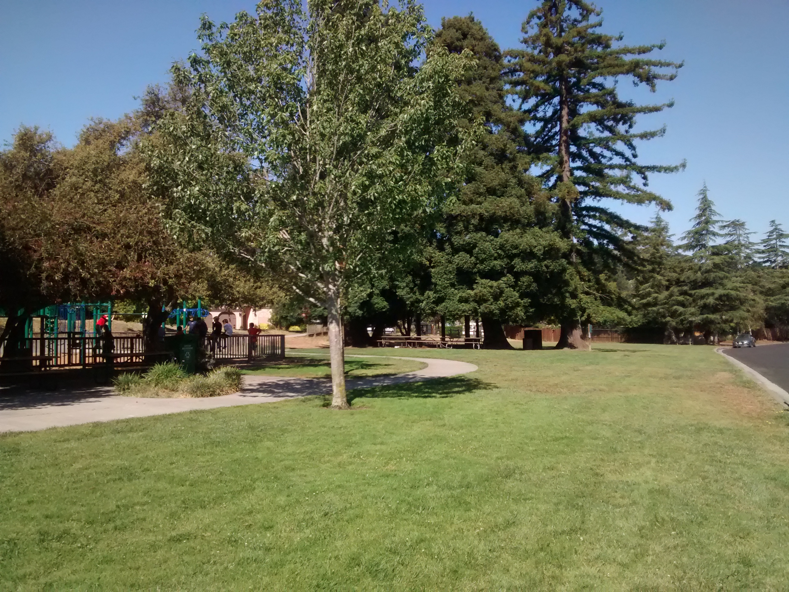 Belvedere Park, California.